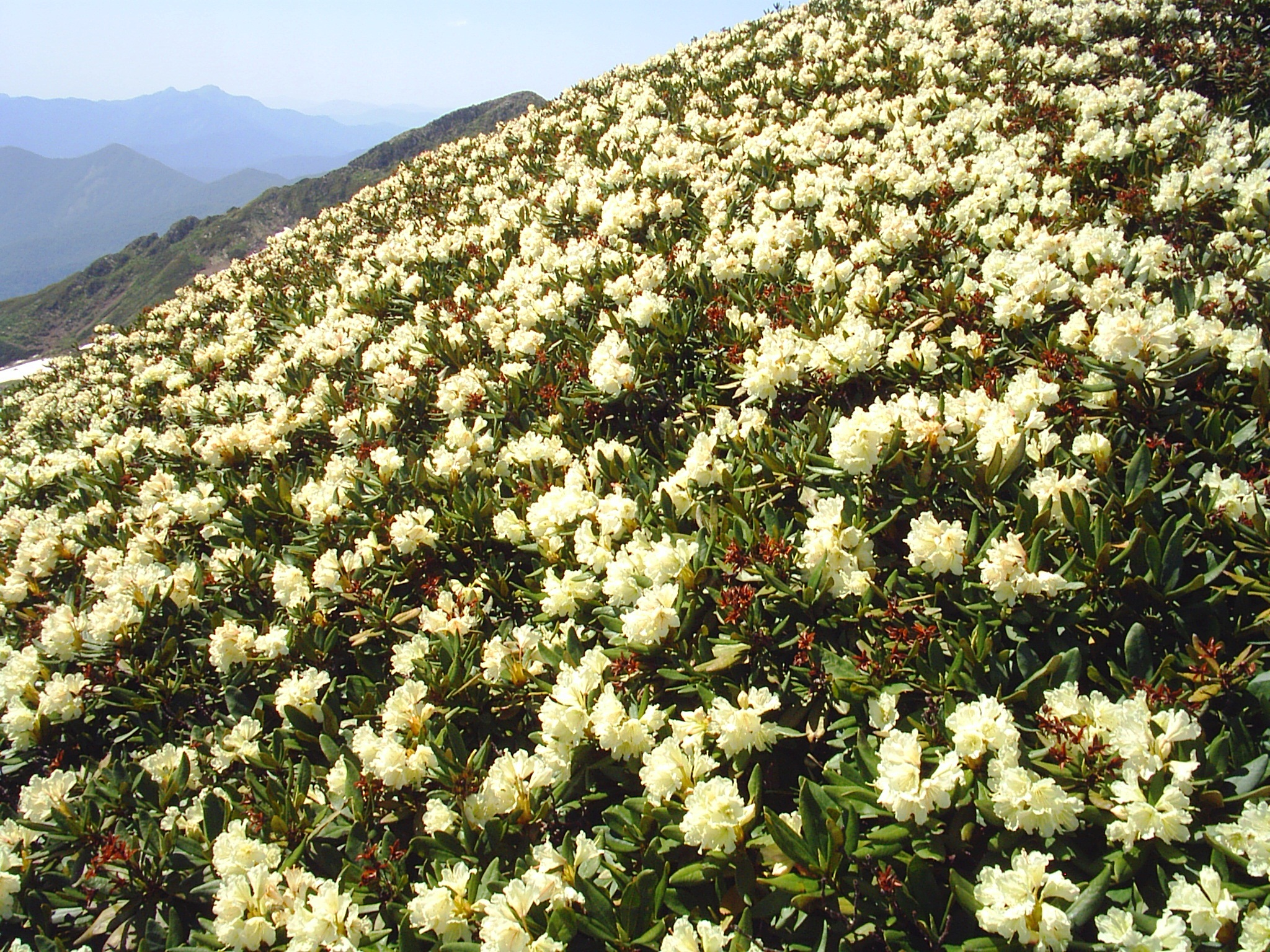 Rhododendron on Mount Achishkho near Krasnaya Polyana, Sochi. Caucasus Biosphere Reserve. This image is related to the protected area of Russia number 2300002